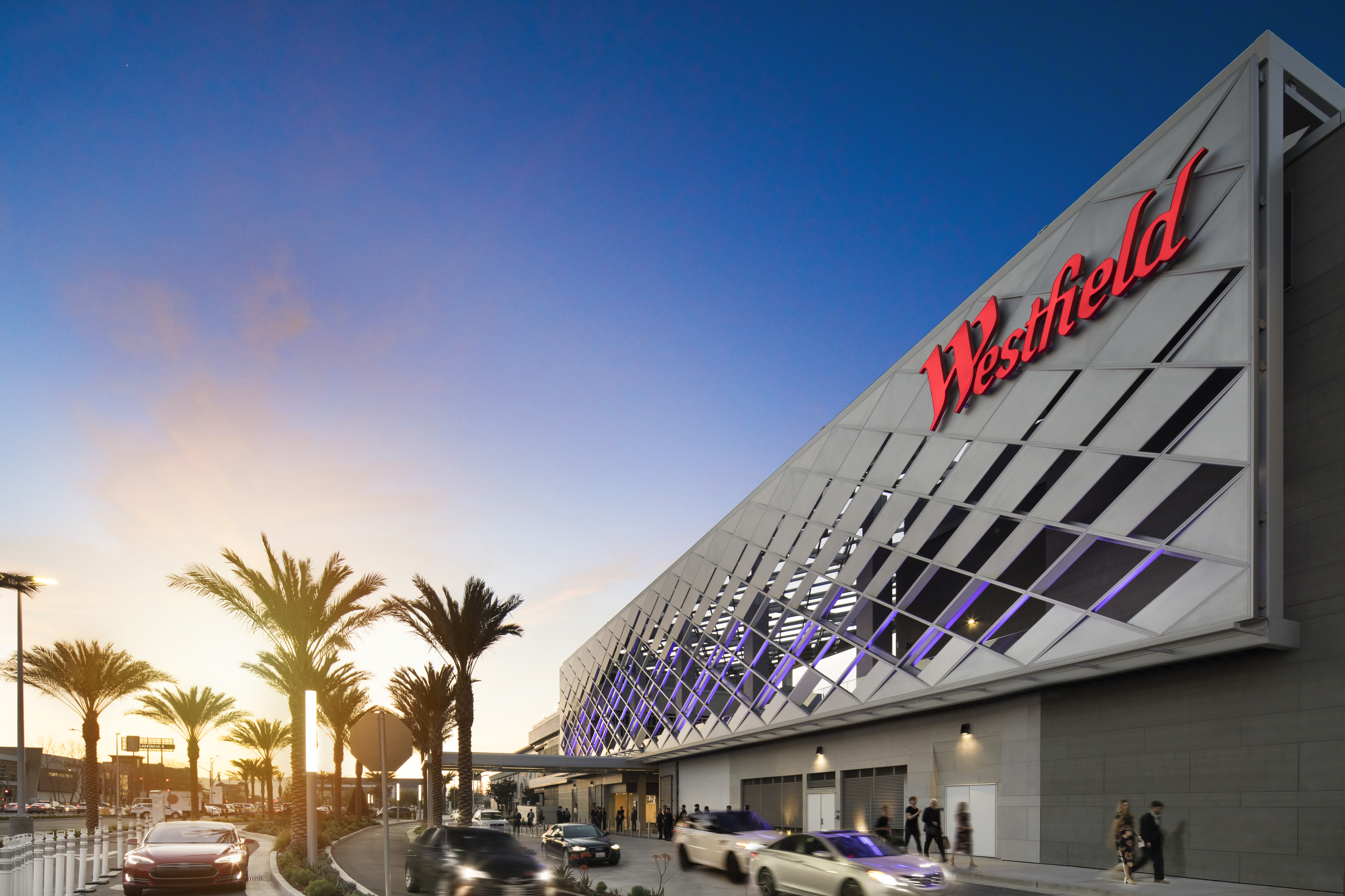 Valley Fair's Grand Valet, located on Steven's Creek Boulevard